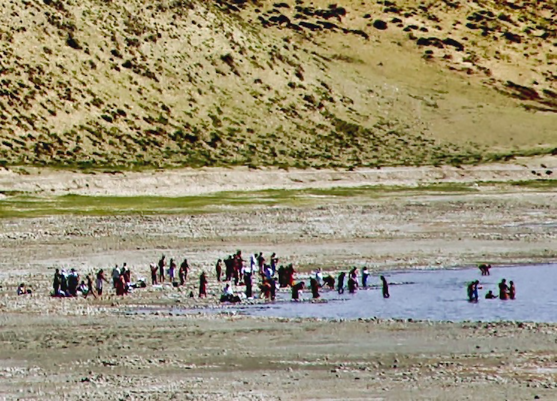 Indian pilgrims bathing in Lake Manasarovar, Tibet (4590 m.), to cleanse themselves from sins